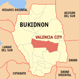 Map of the Bukidnon showing the location of Valencia City